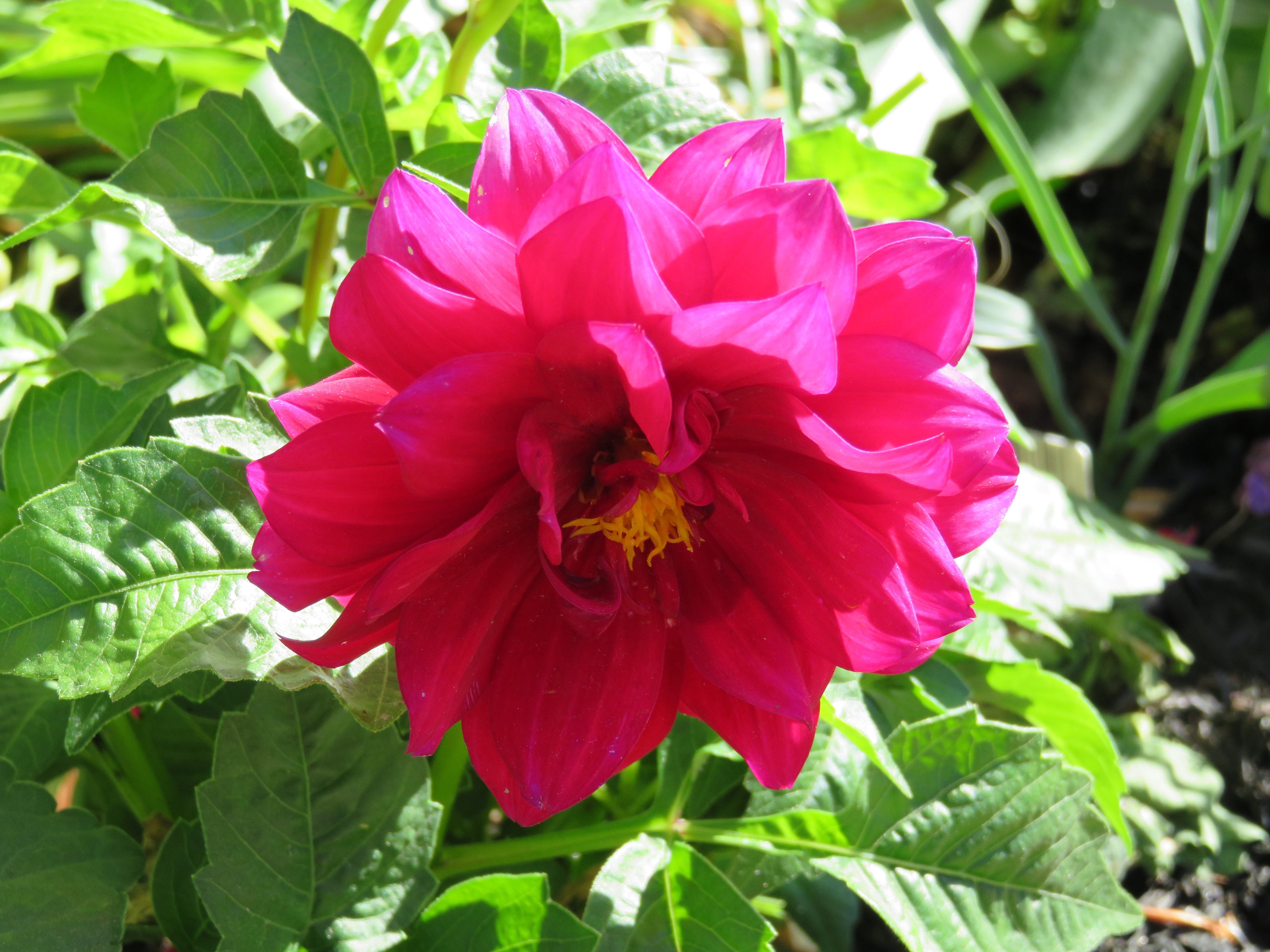 Flower of Dahlia cultivar 'Carolina Burgundy', a Dahliinova series cultivar classified in RHS Group 10 Miscellaneous